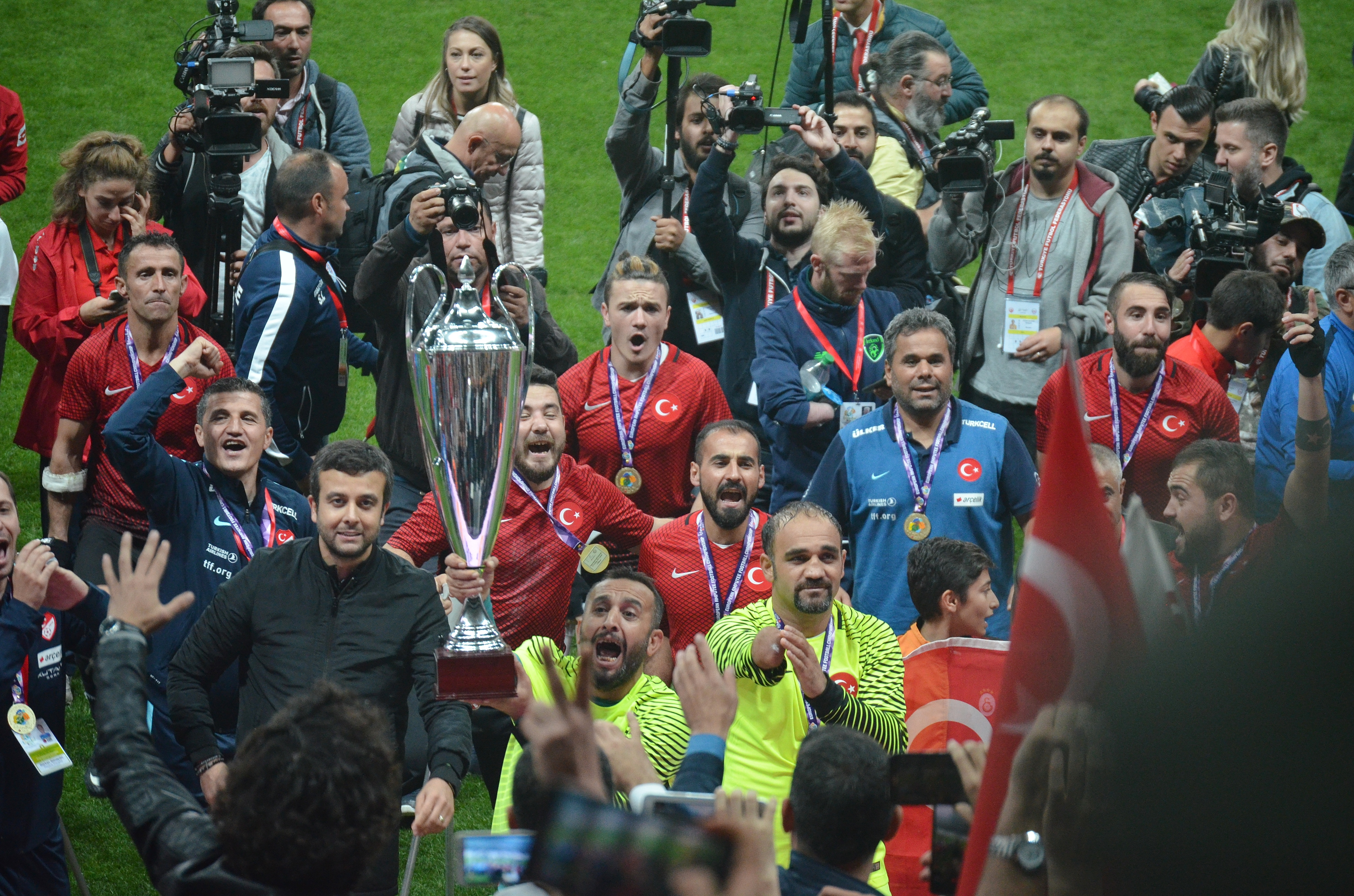 2017 European Amputee Football Championship final match Turkey vs England at Vodafone Park in Istanbul, Turkey.